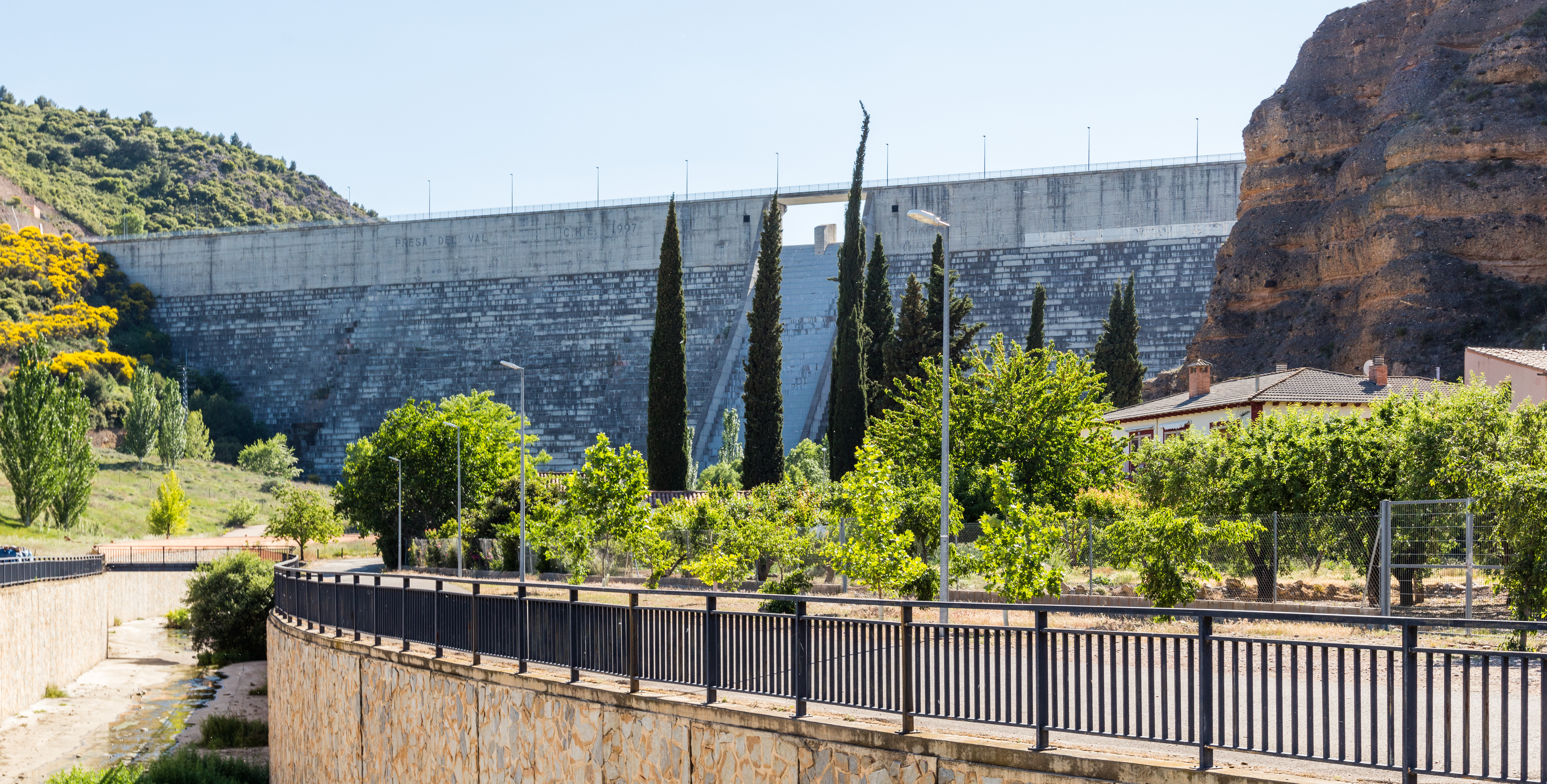 Dam, Los Fayos, Zaragoza, Spain